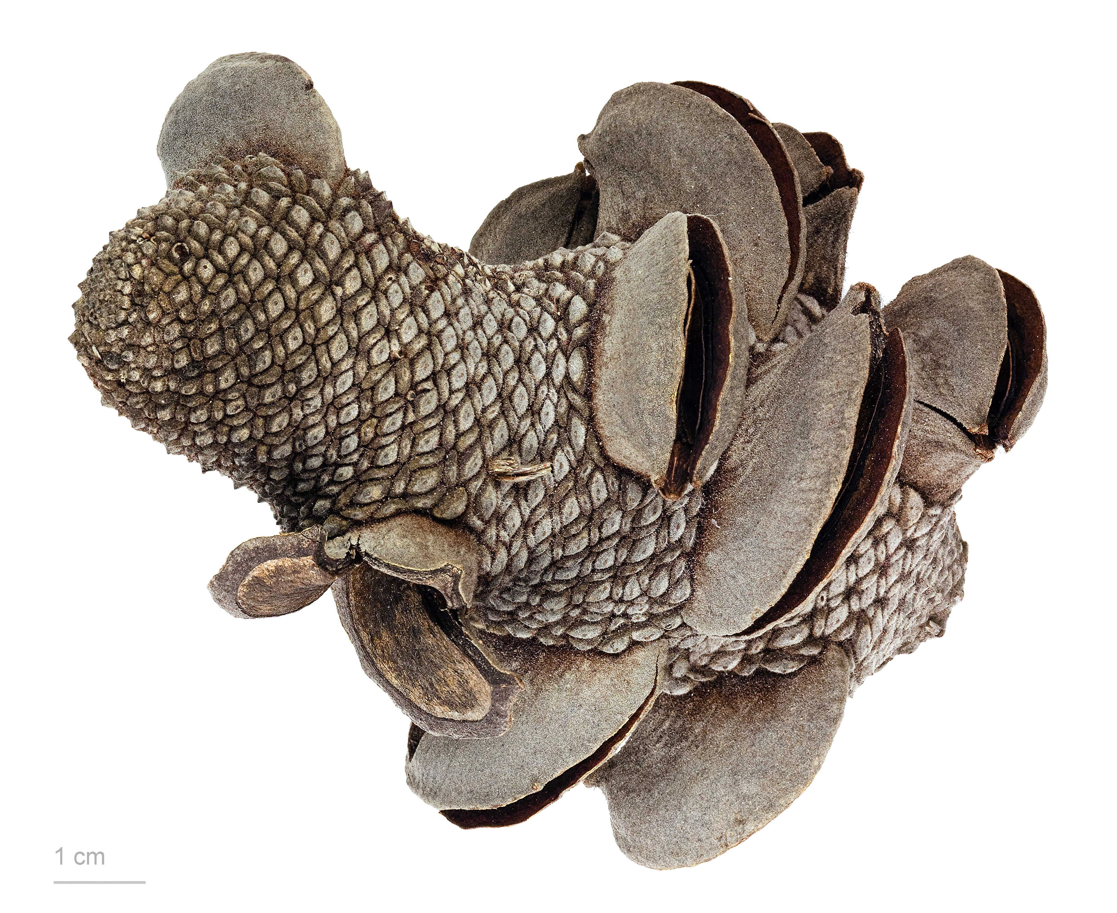 firewood banksia , fruits and seeds